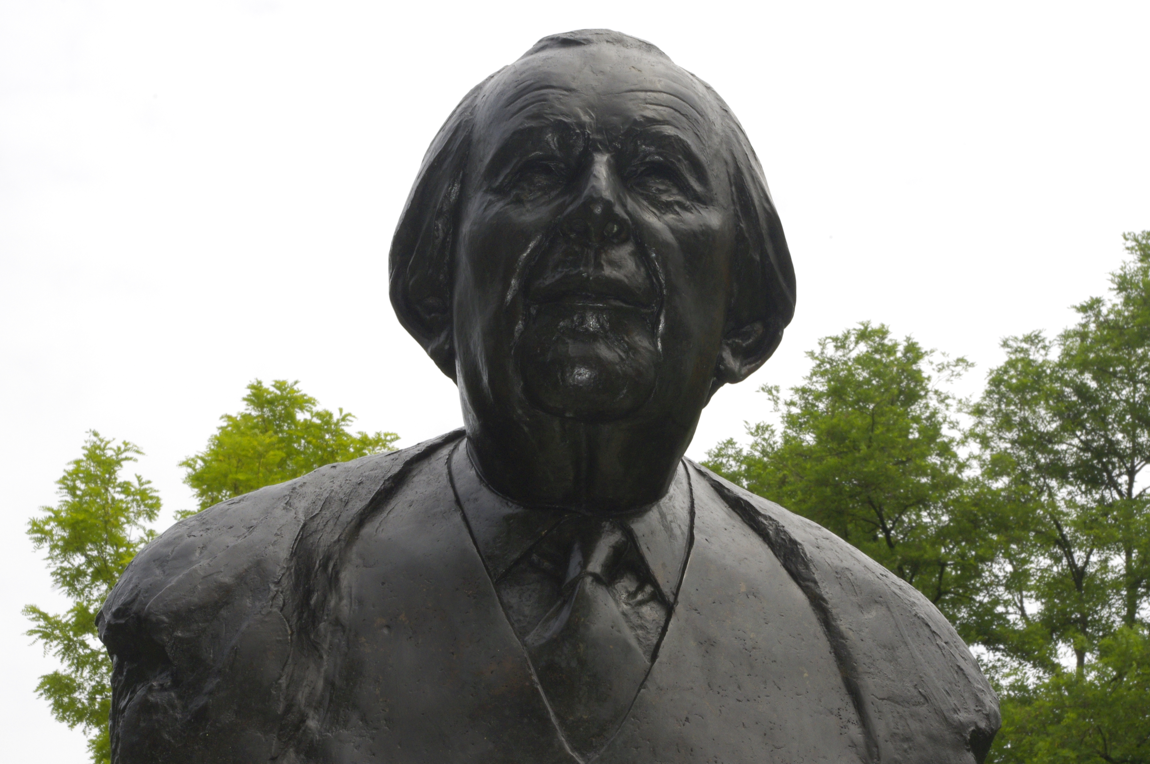 Geneva - Promenade de la Treille, Statue of Jean Piaget.